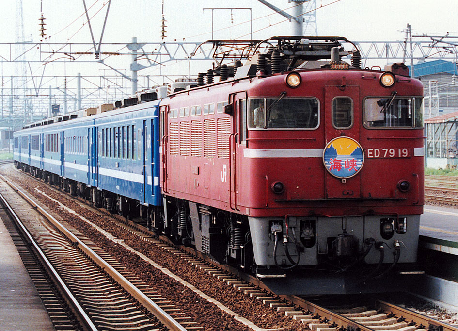 JR Hokkaido Class ED79 electric locomotive ED79 19 on a Kaikyo passenger service